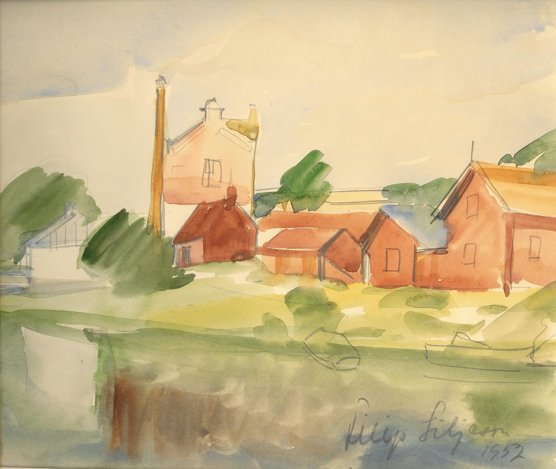 Watercolour painting by Swedish artist Filip Liljeson